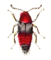 Lordithon lunulatus, from Calwer's Käferbuch, Table 11, Picture 20. Taxonomy was updated to 2008, using mostly the sites Fauna Europaea and BioLib. Please contact Sarefo if the determination is wrong!